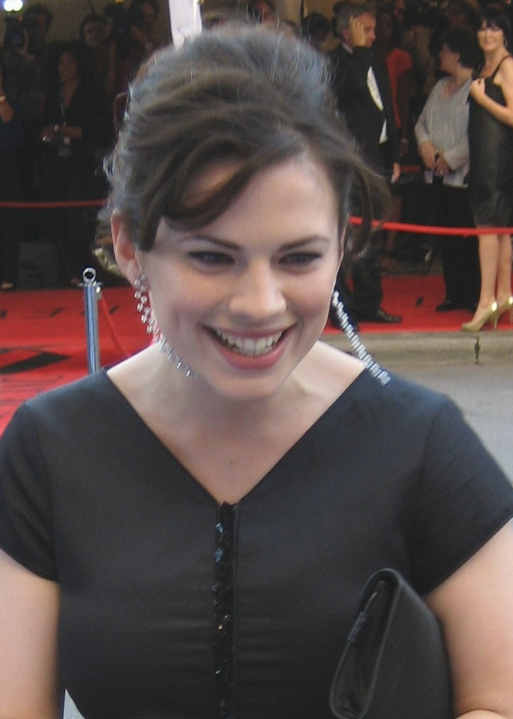 Hayley Atwell at the premiere of Cassandra's Dream, Toronto Film Festival 2007